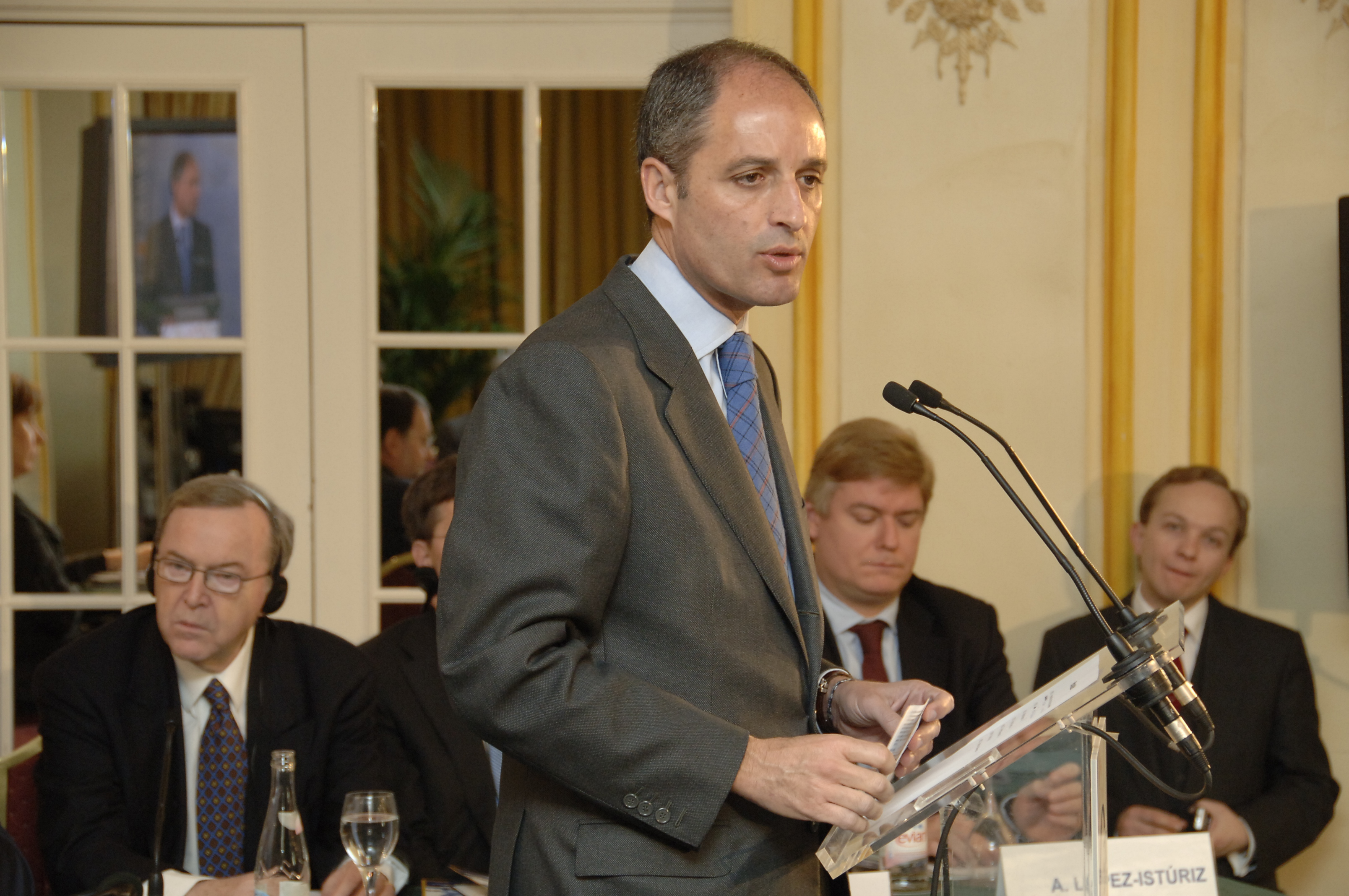 EPP CONVENTION ON CLIMATE CHANGE IN MADRID (6-7 FEBRUARY 2008)